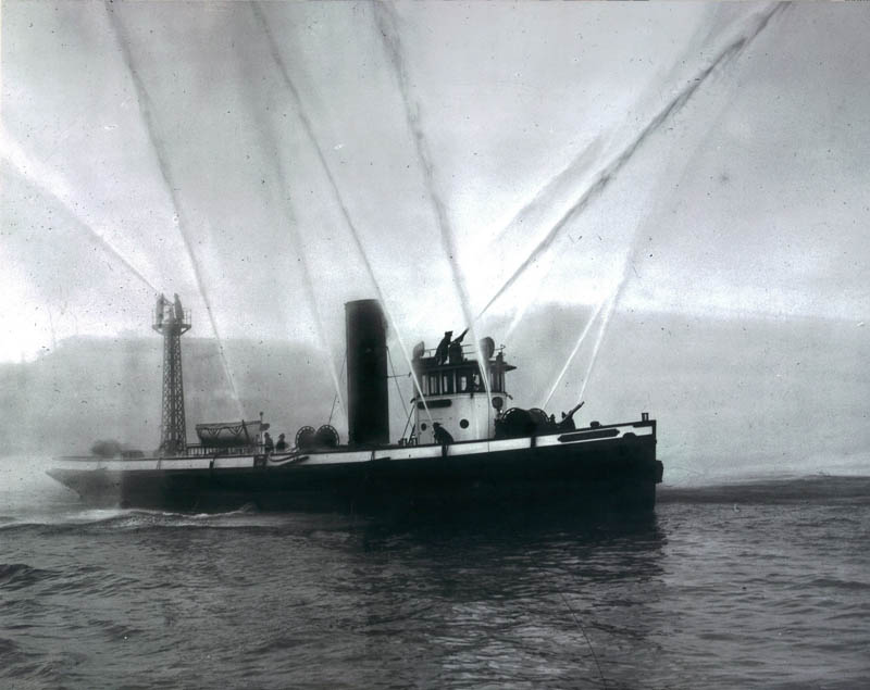 FDNY fireboat Thomas Willett, 1908-07-04.